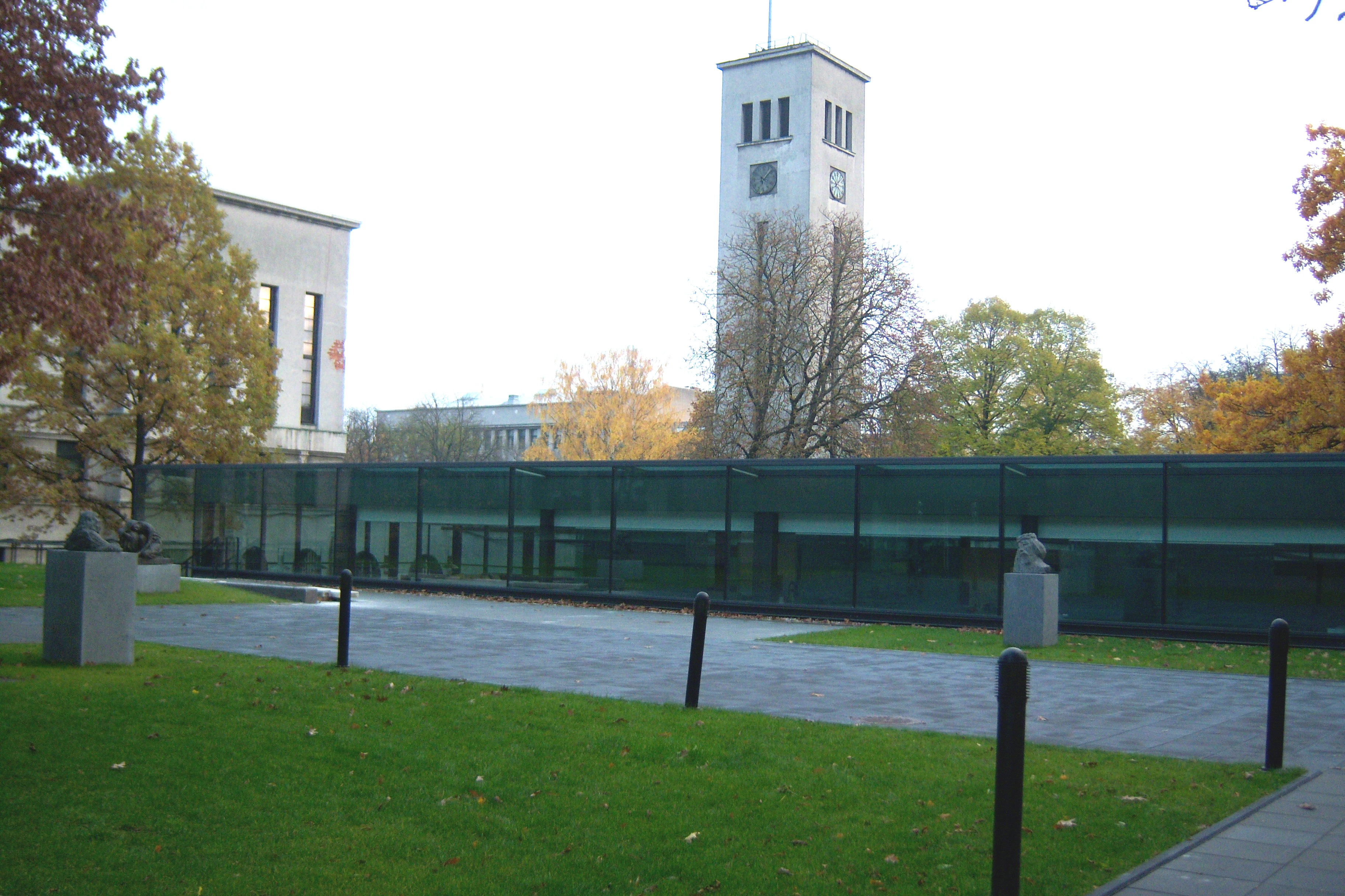 M. K. Čiurlionis National Art Museum,office building in front of bell tower, Kaunas, Lithuania.